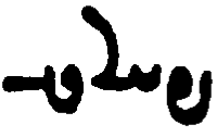 Fars in pahlavi script